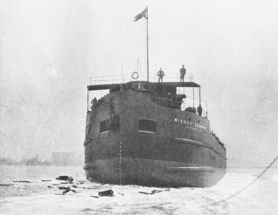 The canaller Nisbet Grammer underway